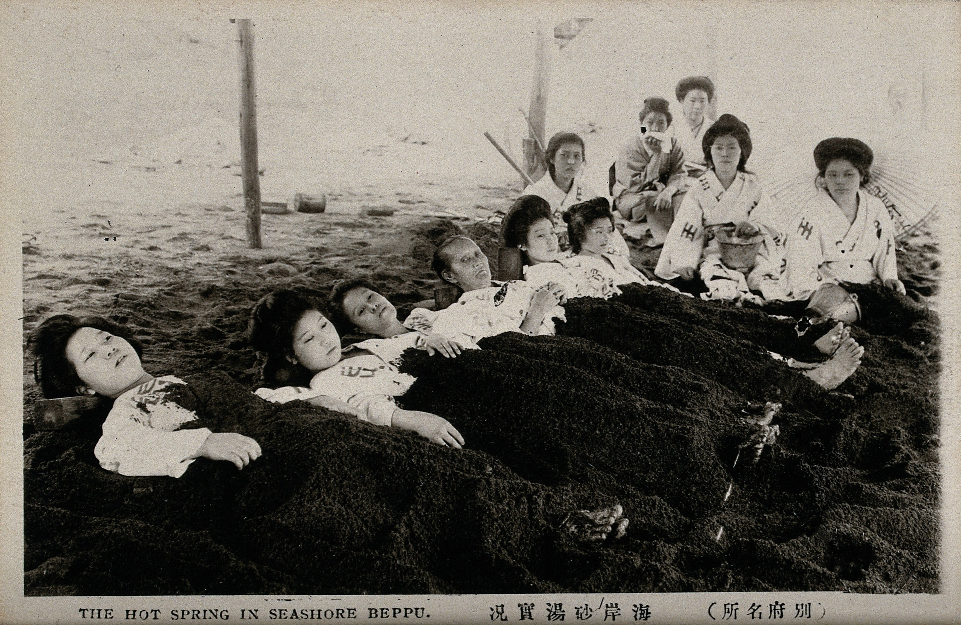 Japanese wearing yukatas lying under warm volcanic sand on the beach at Beppu, Japan Iconographic Collections Keywords: Bathing; Woman; Postcard; Japanese; Sand; Female; Japan; Volcano; Sulphur; Beach